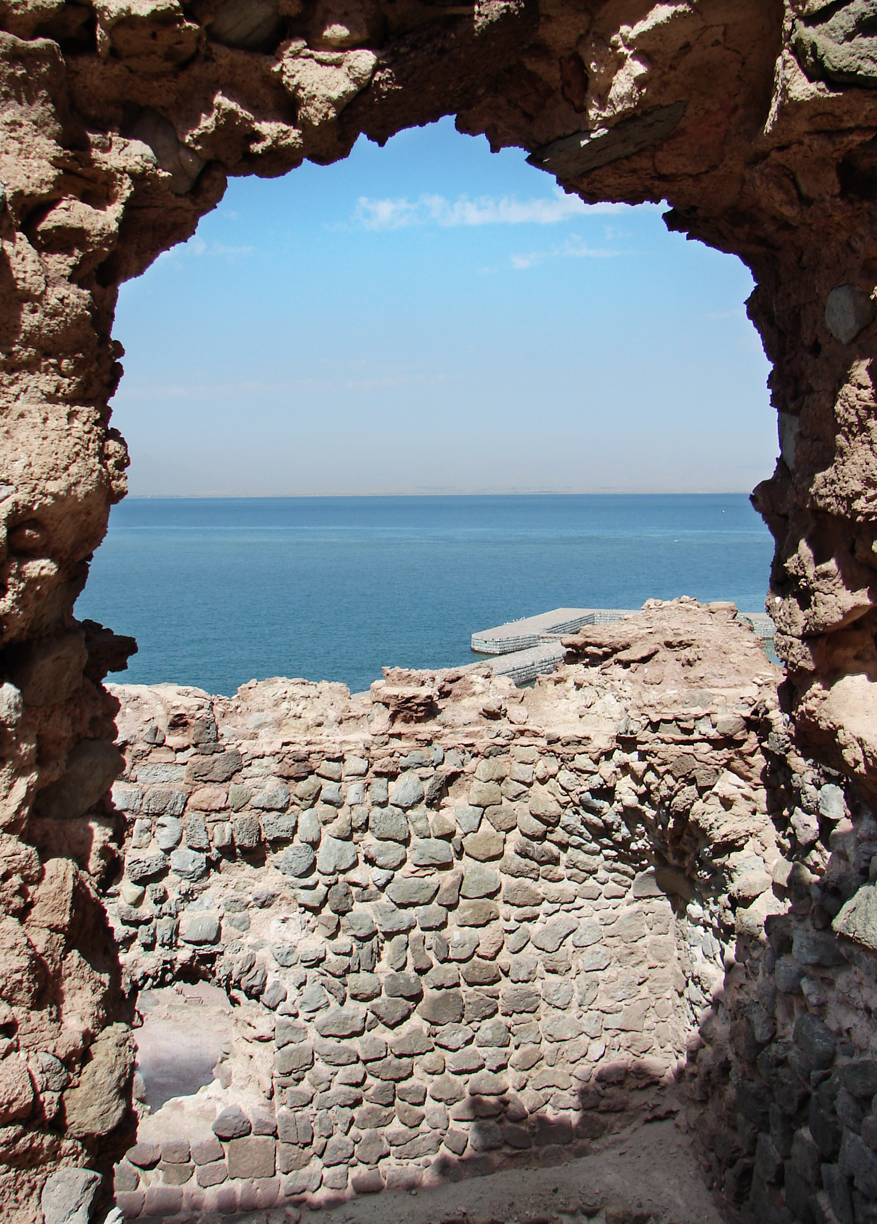 What you see here is the luxe commander seat of Portuguese castle in Hormoz island . The commander seat was a two (or maybe three) floors square building located at western south of the castle - a super safe location, while the best place to make a look at all castle. The ceilings are all destroyed, but you can see main walls and beautifully made corners of the rooms in this shot.